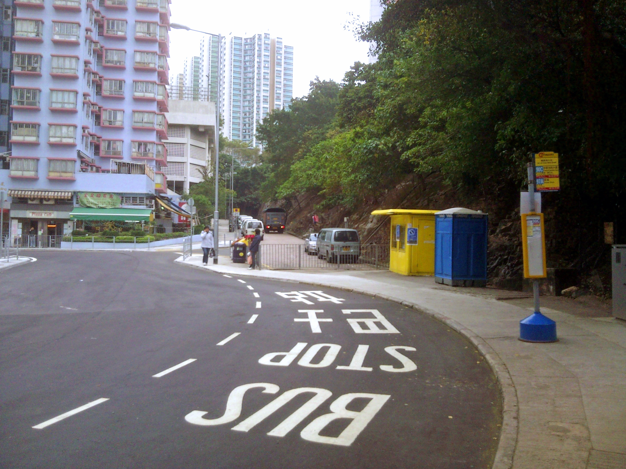 Ap Lei Chau Main Street Bus Terminus